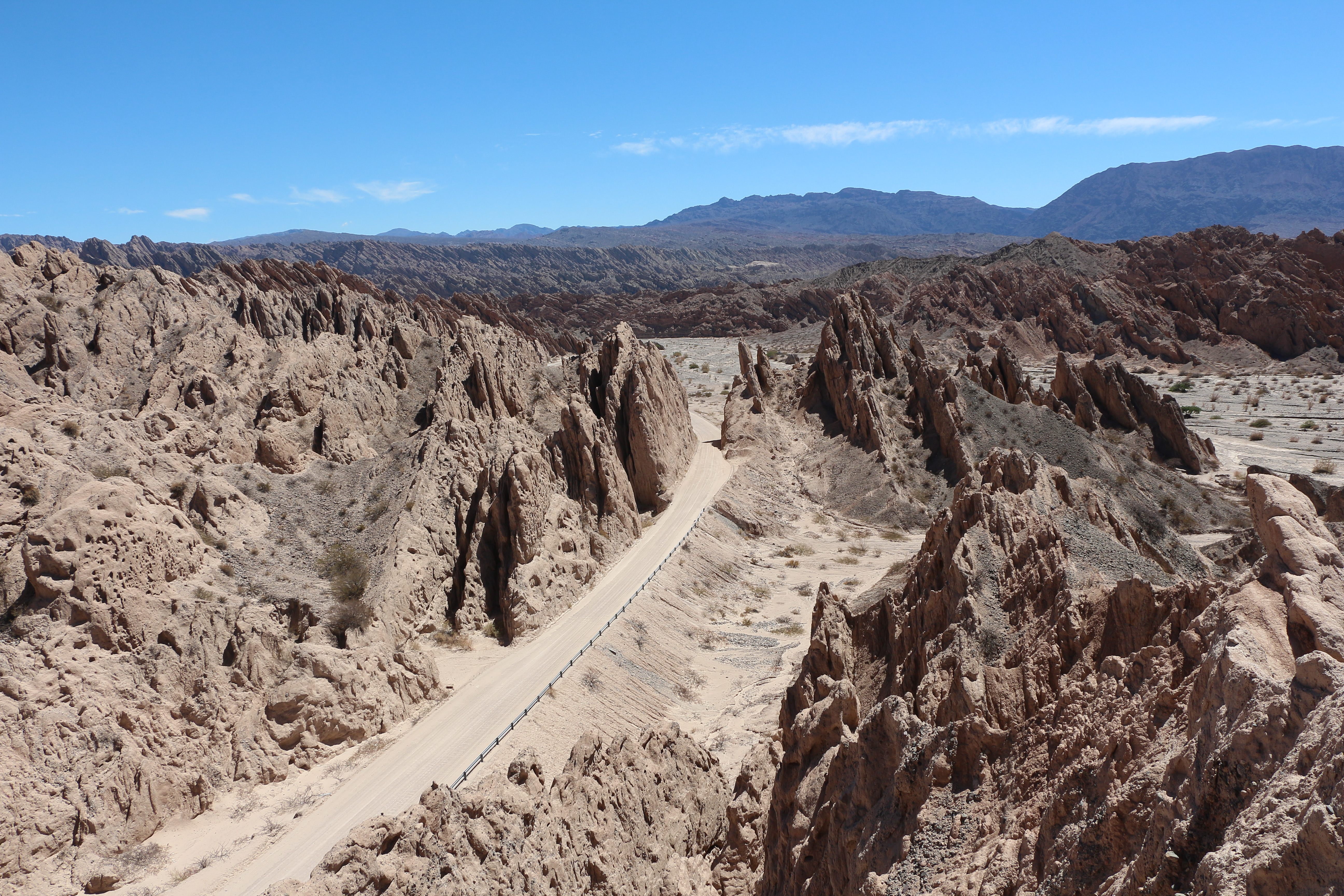 National Route 40 in Quebrada de las Flechas, Argentina